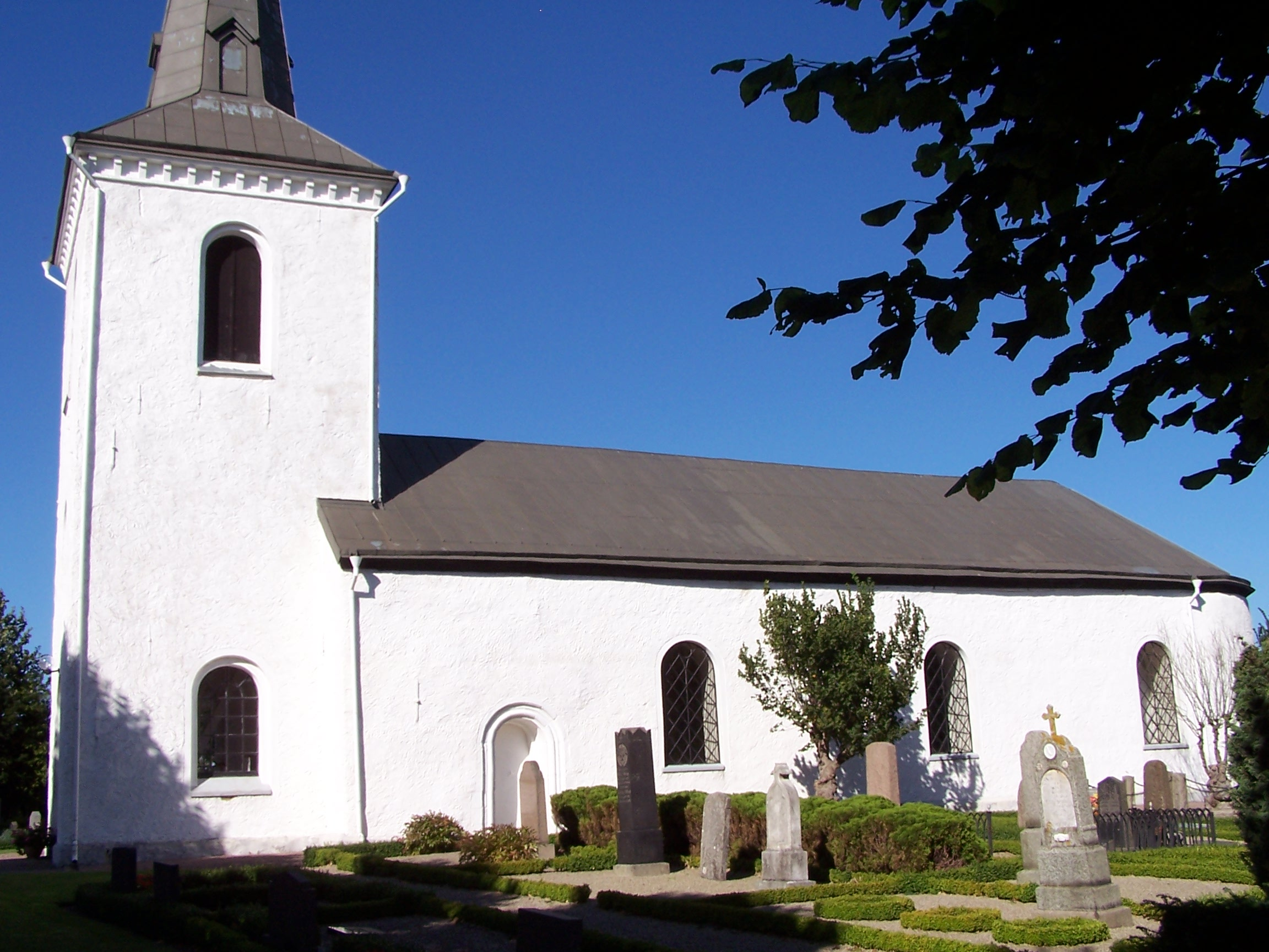 Tirups kyrka - Exterior from south.